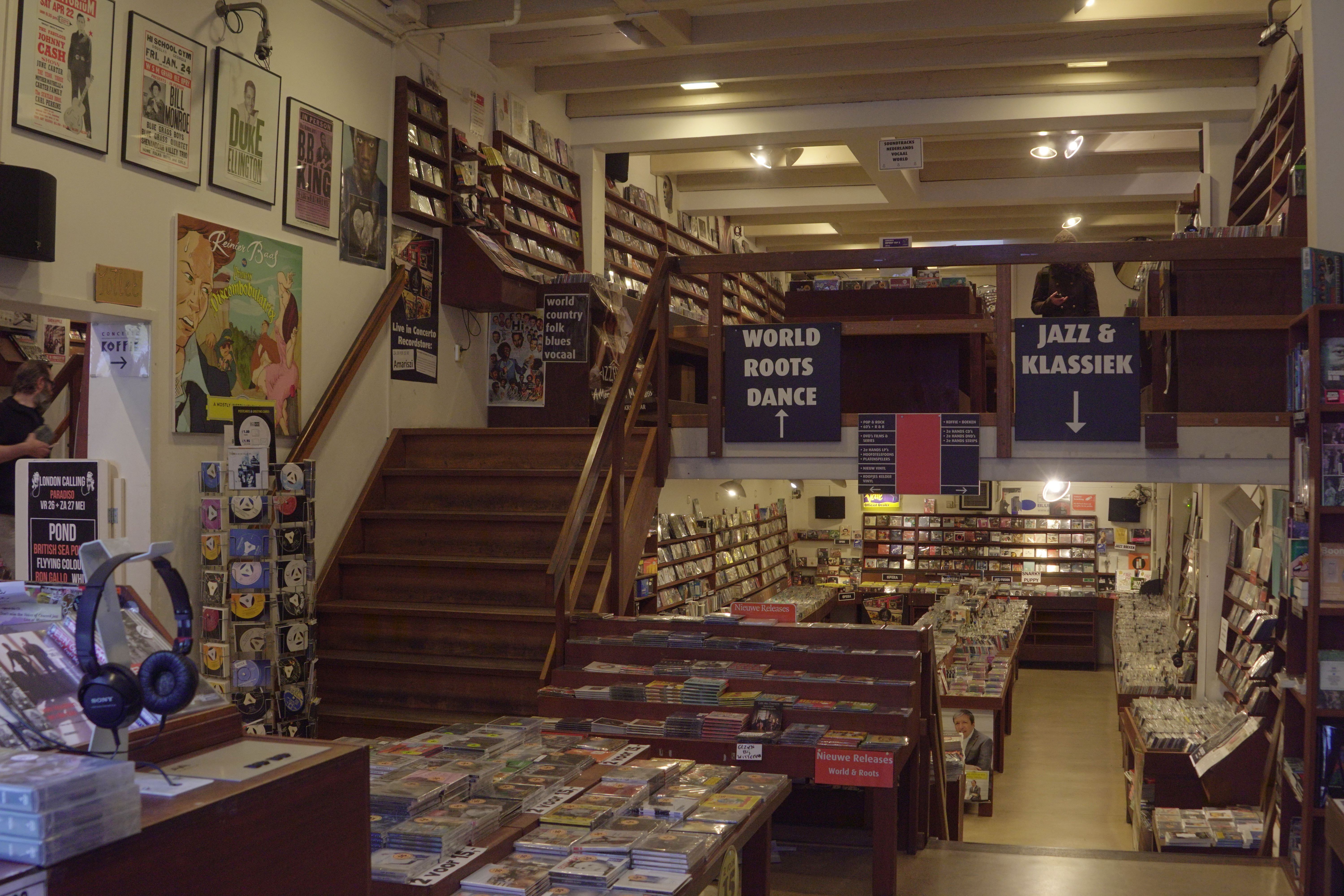 Concerto music store, Utrechtsestraat 60, Amsterdam